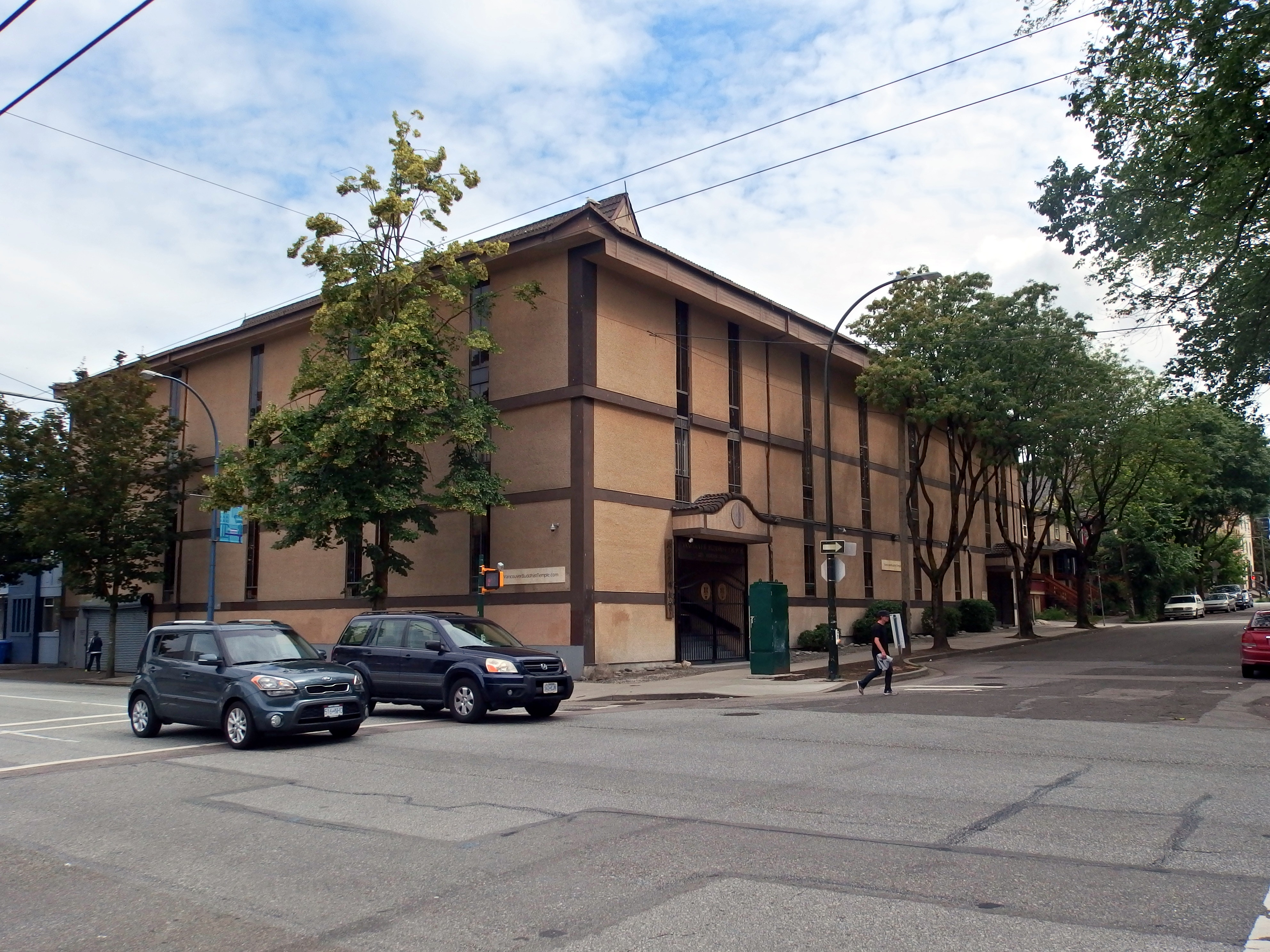 Vancouver Buddhist Temple in 220 Jackson Ave, Japantown, Vancouver, BC, Canada.